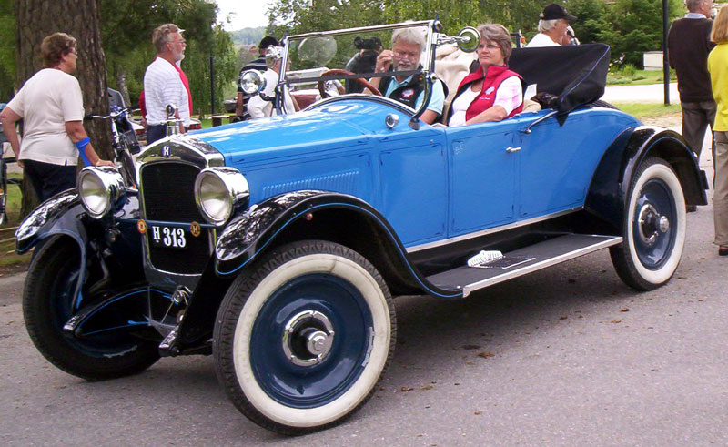 Hupmobile RRS Special Roadster 1924